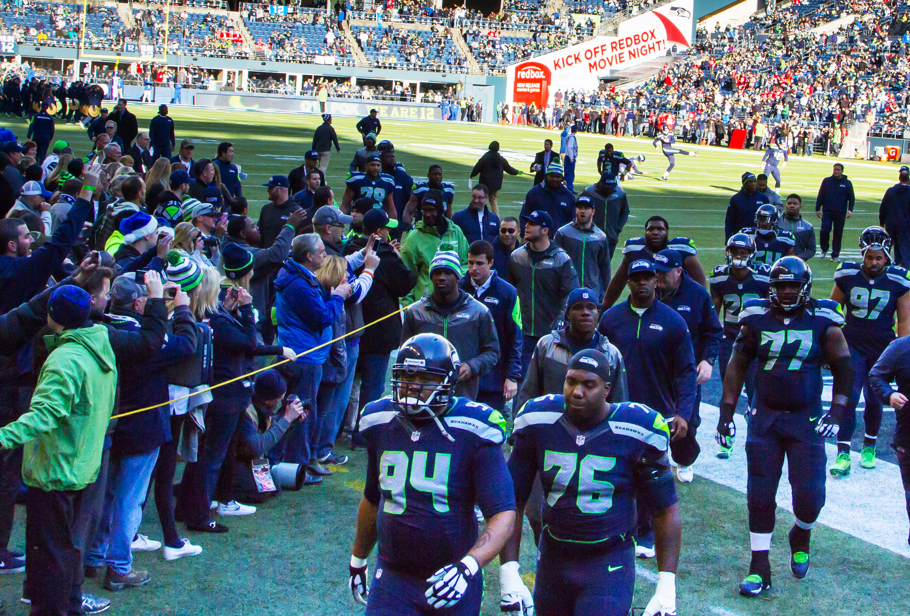 49ers at Seahawks 2014